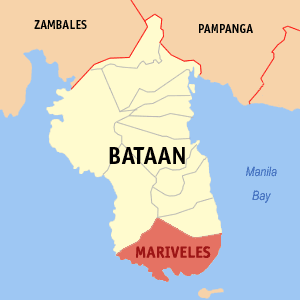 Map of Bataan showing the location of Mariveles